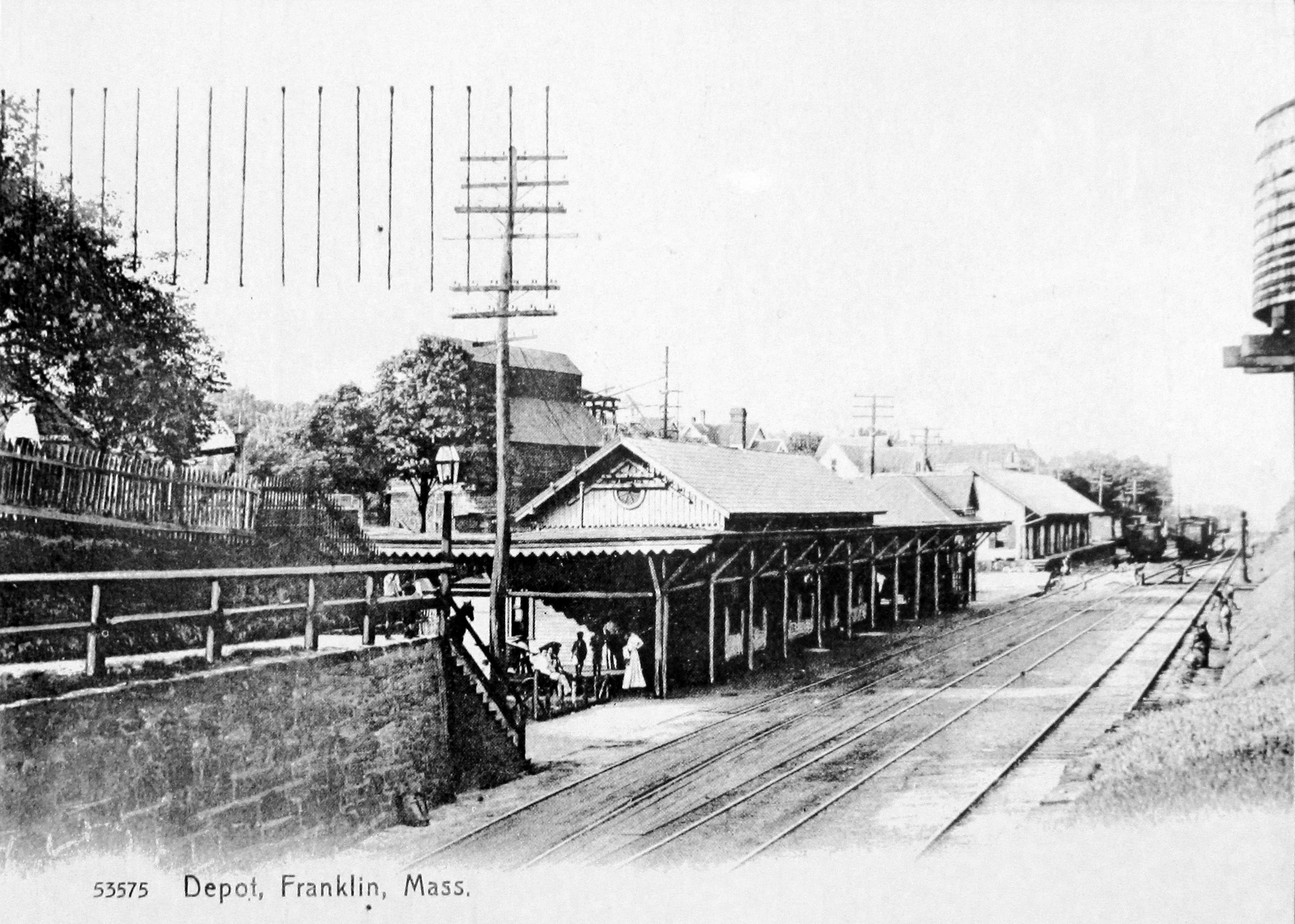 Franklin, Massachusetts depot in 1905. It was later replaced by a newer building which still stands.